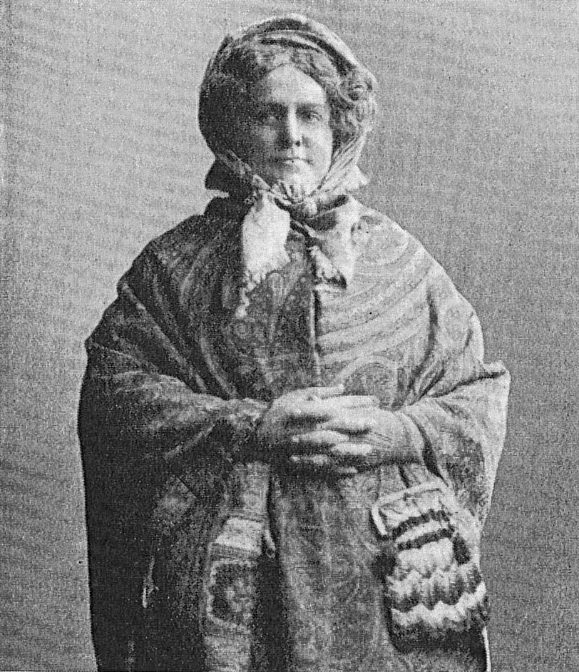 Concordia Selander (1861-1935), Swedish actress. Seen here dressed for a part in the play Gamla goda tiden circa 1908-09.